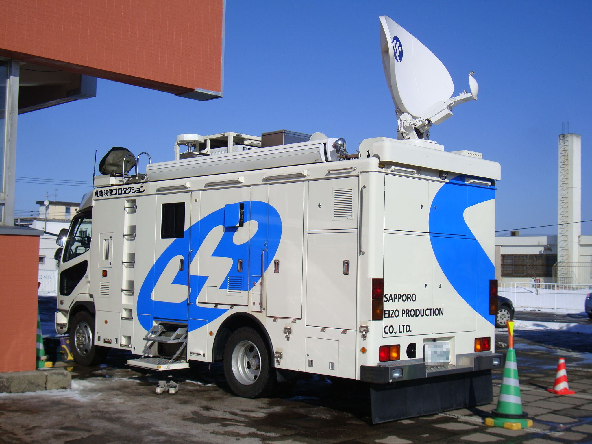 SAPPORO EIZO PRODUCTION outside broadcasting